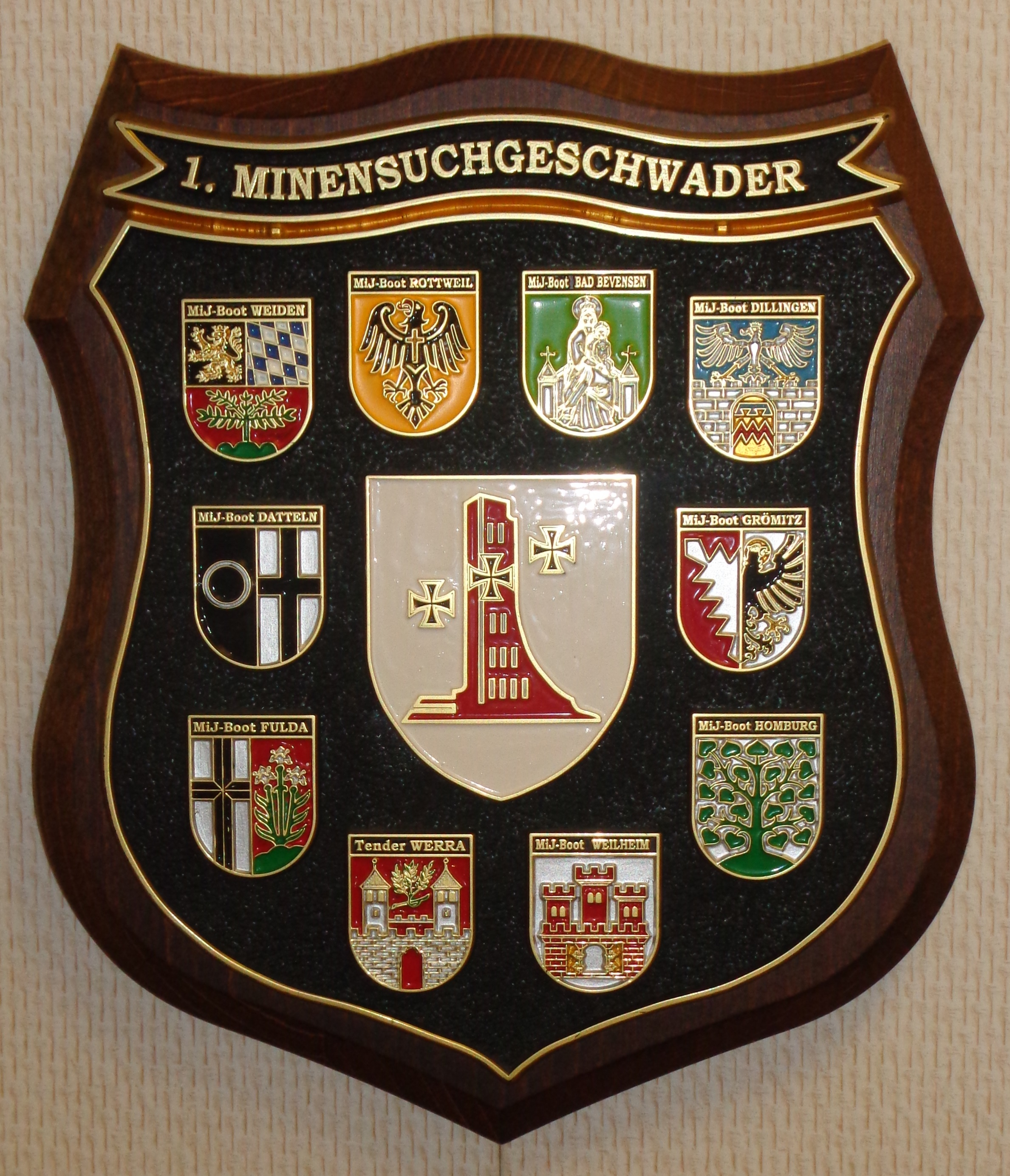 Internal coat of arms of the Bundeswehr (Armed Forces of the Federal Republic of Germany). → Remarks on naming and categorization scheme Wappen des 1. Minensuchgeschwaders und seiner Boote auf MS Deutschland